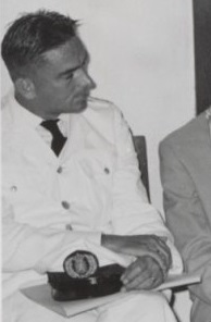 During their visit of the village of Inanwatan, the party attended a meeting of the Inanwatan town board. From left to right: the inspector of Teminabuan, F.J.M. Cappetti, ...